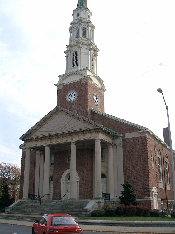 United Congregational Church, Bridgeport, Connecticut.